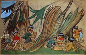 Japanese Children Playing. Original painted by Olive Allen Biller (b. 1879)